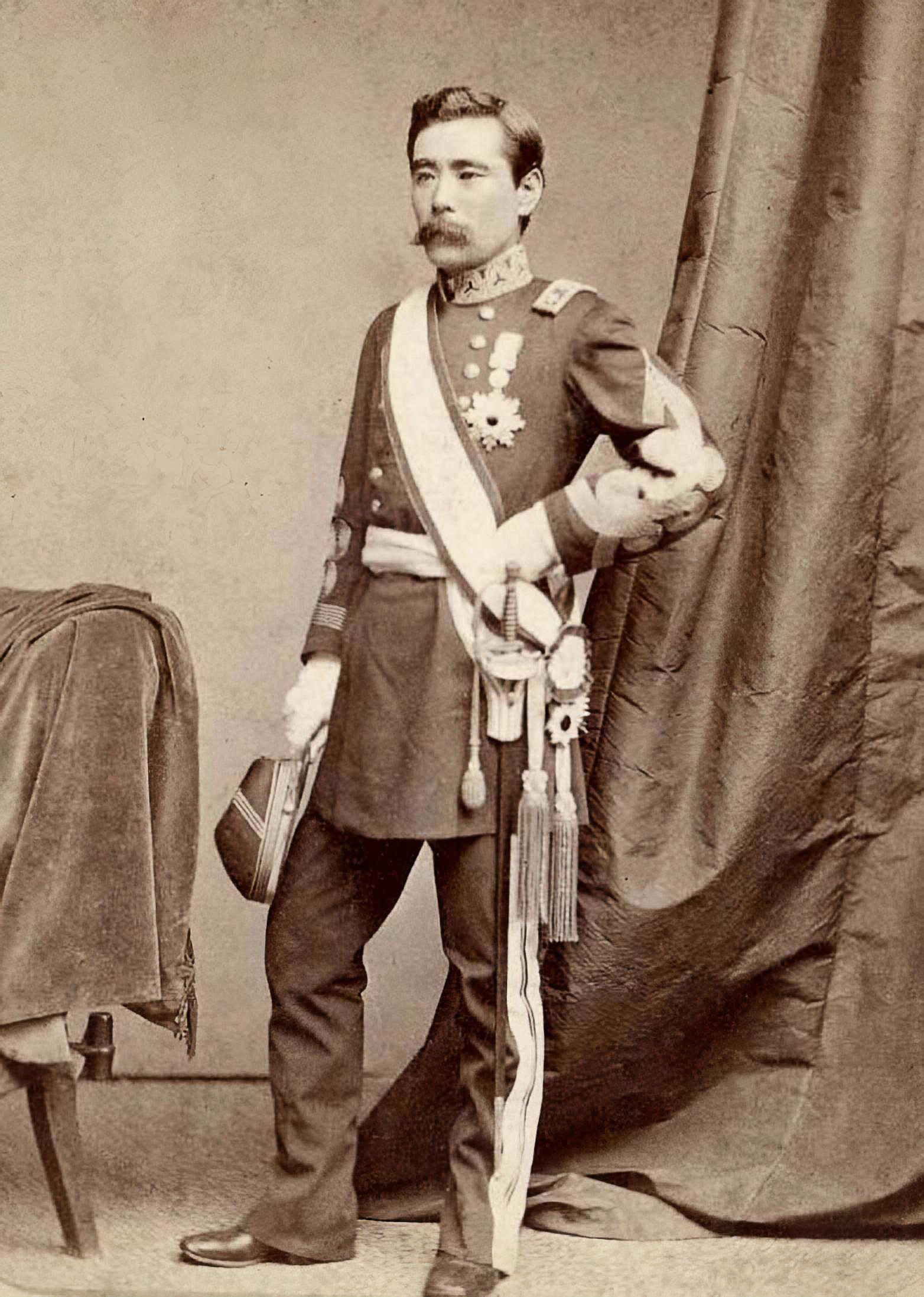 Portrait of General Saigo Tsugumichi